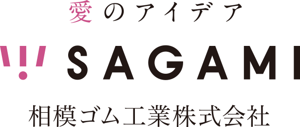 The new logo of the sagami rubber industries to update the outdated one on